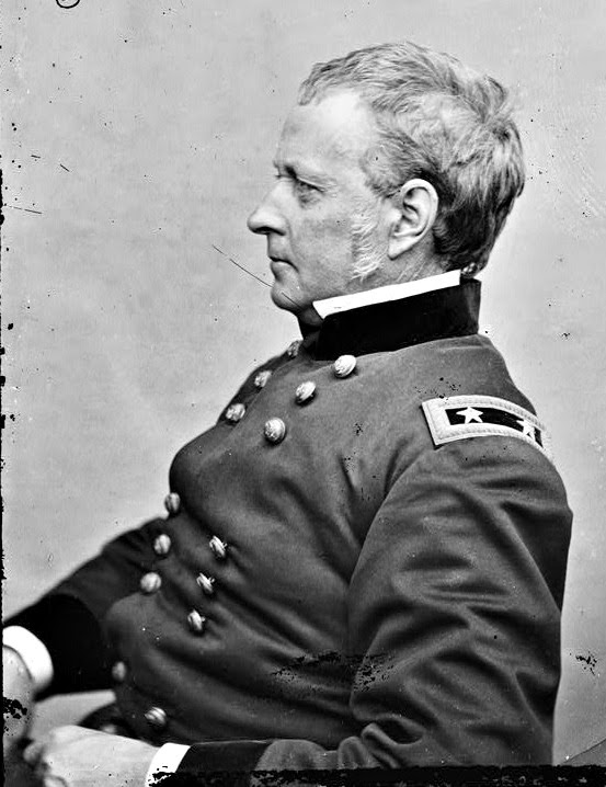 Joseph Hooker (November 13, 1814 – October 31, 1879) was an American Civil War general, chiefly remembered for his decisive defeat by Confederate General Robert E. Lee at the Battle of Chancellorsville in 1863.